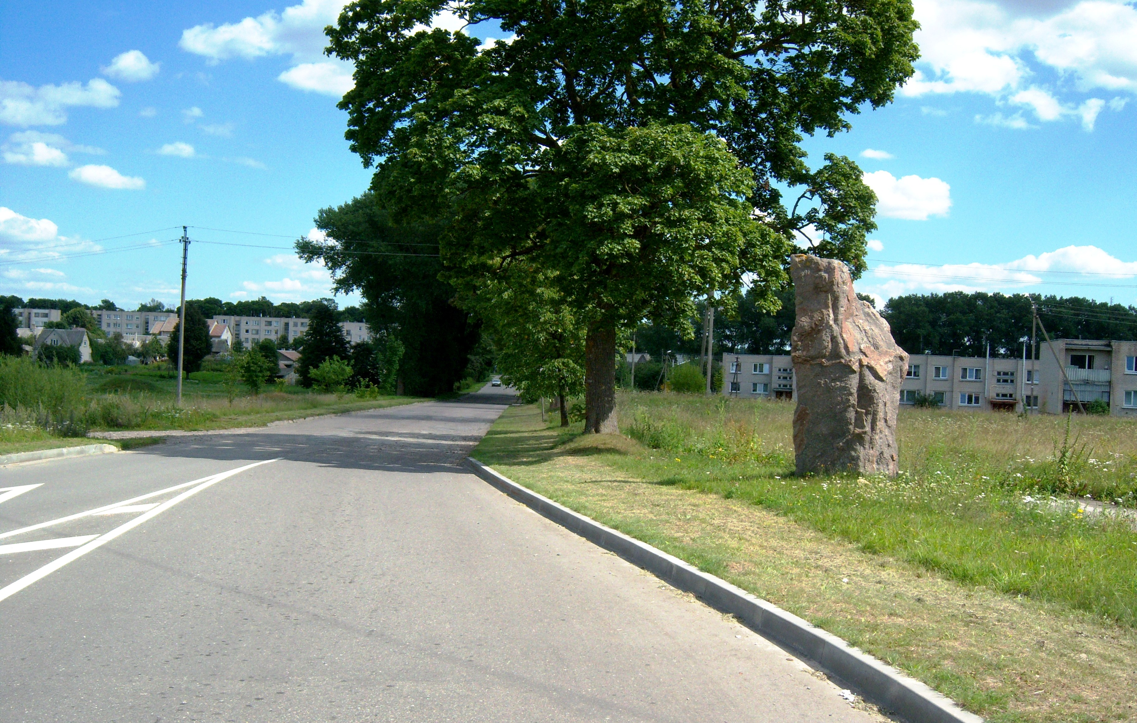 Lithuanian village Šventupė, Ukmergė district